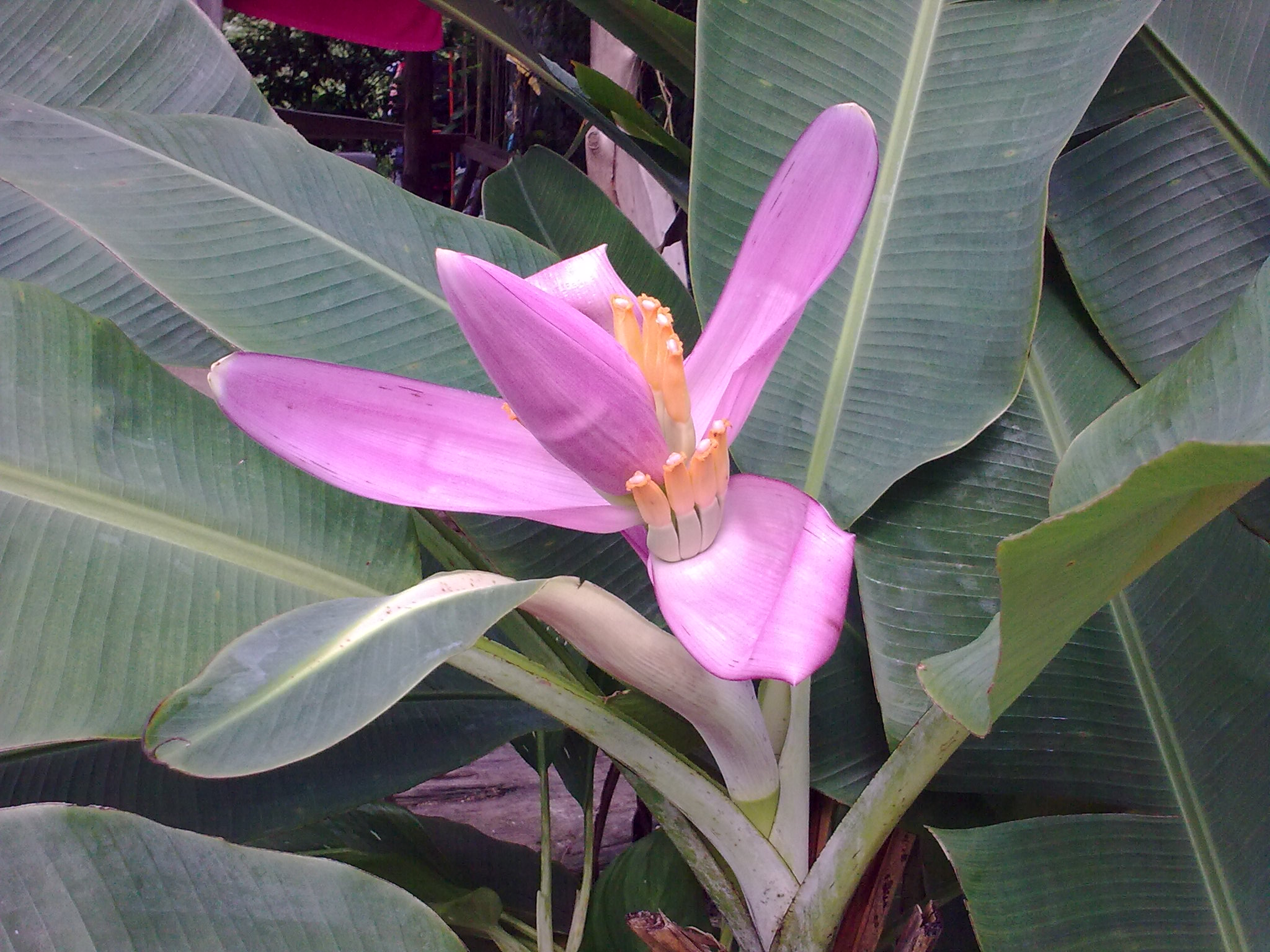 banana flower